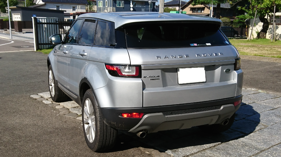 rangeRover 2016year HSE